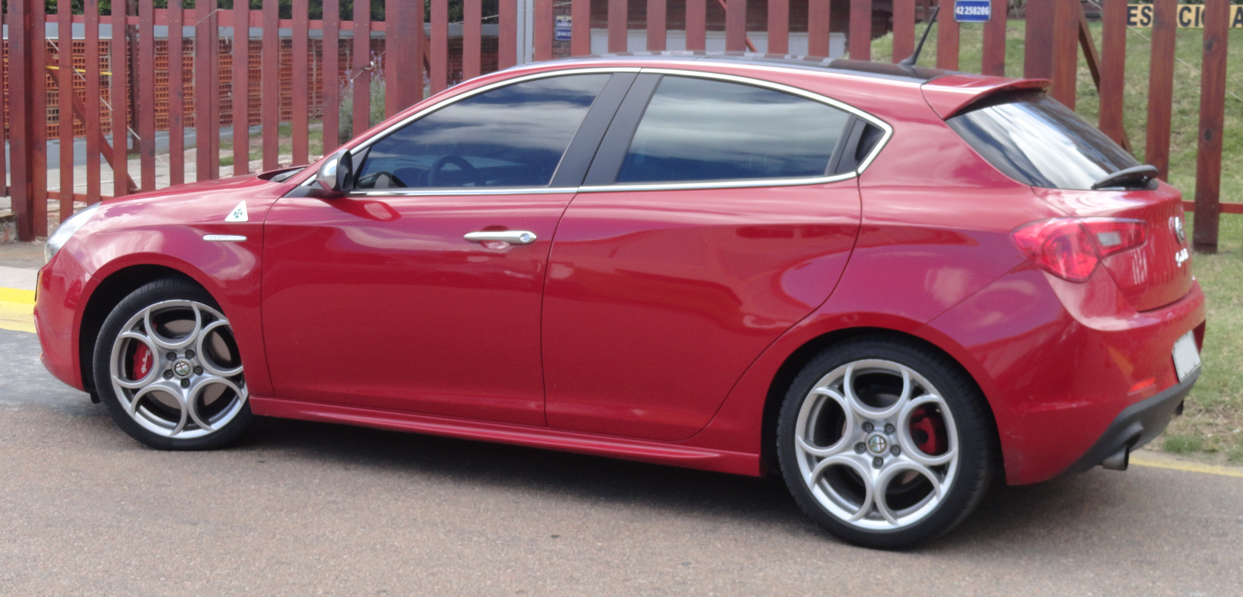 Alfa Romeo Giulietta QV photographed in Punta del Este (Uruguay)